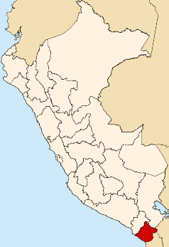 Map of Peru highlighting the Tacna region